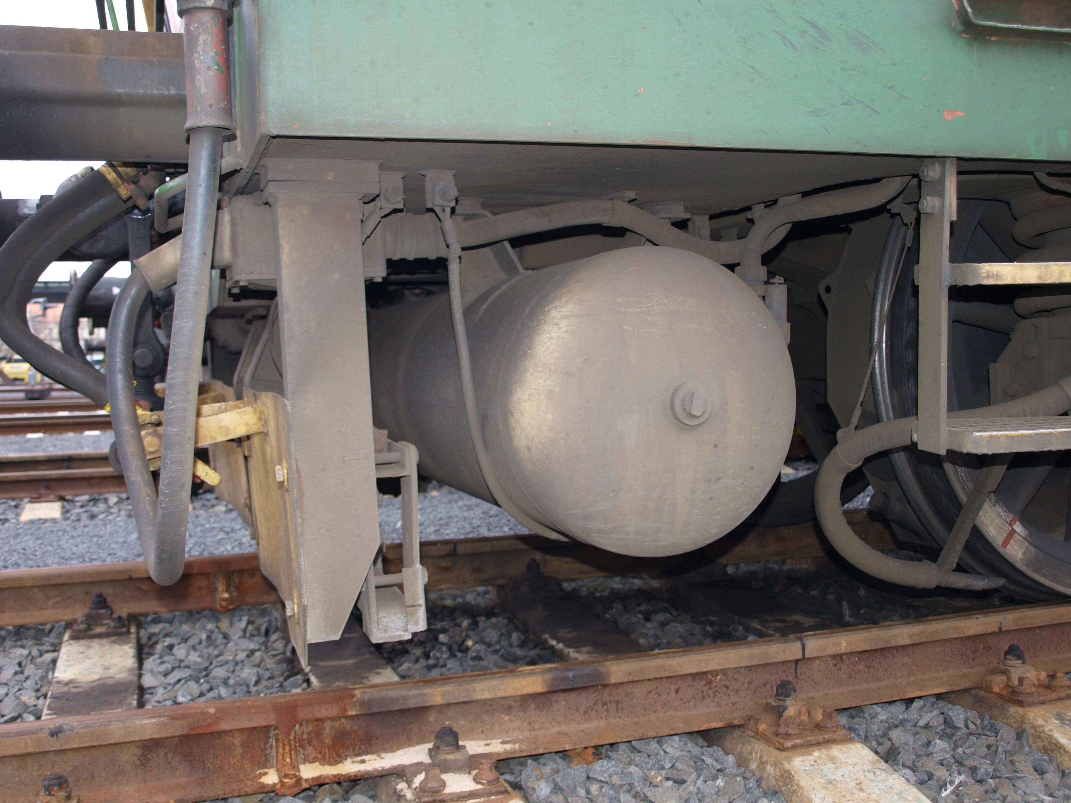 Locomotive 163.242 at Prague main station - main reservoir